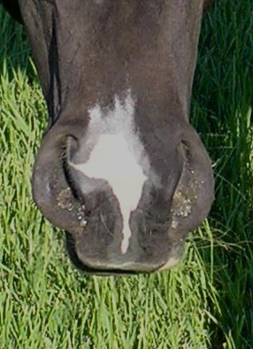 Nose of a horse, showing a marking called a "snip."